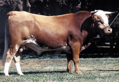 Argentine Criollo Bull from the "Asociación Argentina de Criadores de Ganado Bovino Criollo" available: Asociación Ar…